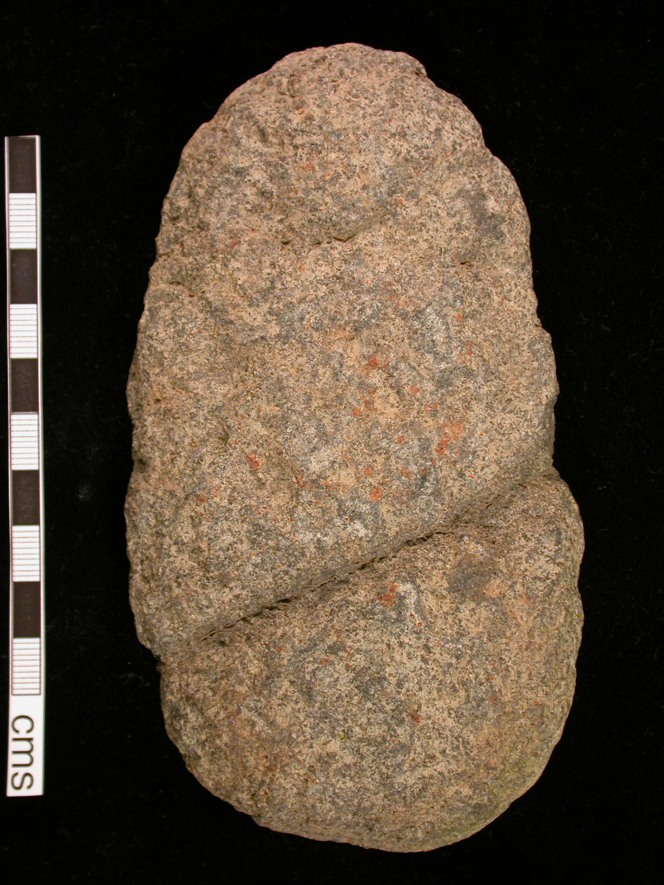 Incomplete greenstone or metadolerite axe roughout, which has been petrologically analysed by Dr. Roger Taylor as part of the Clodgy Moor Project. The roughout is a weathered cobble in the basic shape of a tear-shaped axe in plan, and is lozenge-shaped in profile and in section. There is a concentric groove that carries on around the width of the axe at an oblique angle, which was probably formed by wear if it was suspended as a weight. But many similar examples are turning up from the same field which suggests a possible local source or outcrop for this rock type. A chip of the butt end has been knocked off by the plough, revealing a dark black micaceous interior. The greenstone is typical of that found in the west of Cornwall from known outcrops, such as the Gwavas quarry, and contains pale felspars and dark amphibole inclusions (Dr. Roger Taylor pers comm - see notes below). A similar example has been excavated from the Neolithic settlement at Carn Brea and is illustrated in Mercer (1981) on page 155, Fig.64, No.S5.